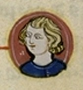 Philip V of France